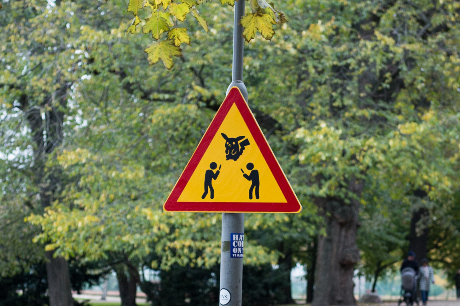 An unofficial, fan-made Pokémon Go sign in Helsinki Kaisaniemi park.